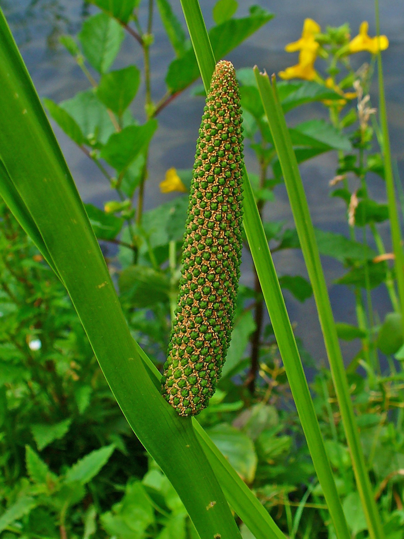 Sweet Flag, Calamus, inflorescence; Karlsruhe, Germany. The dried and peeled rhizome is used in homeopathy as remedy: Calamus aromaticus (Calam.)